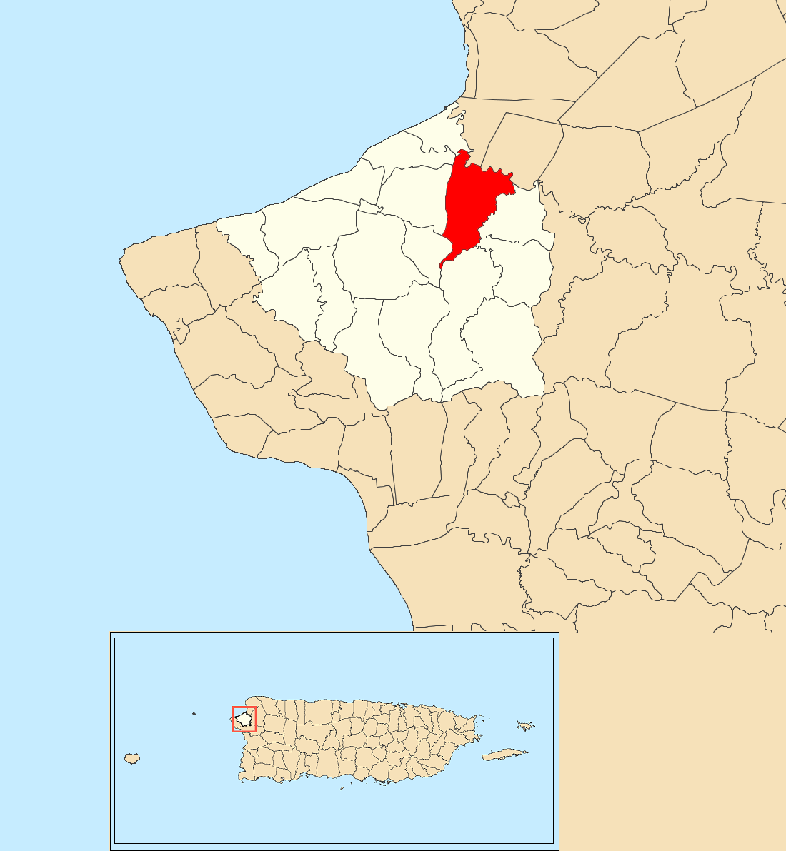 Guanábano, Aguada, Puerto Rico locator map